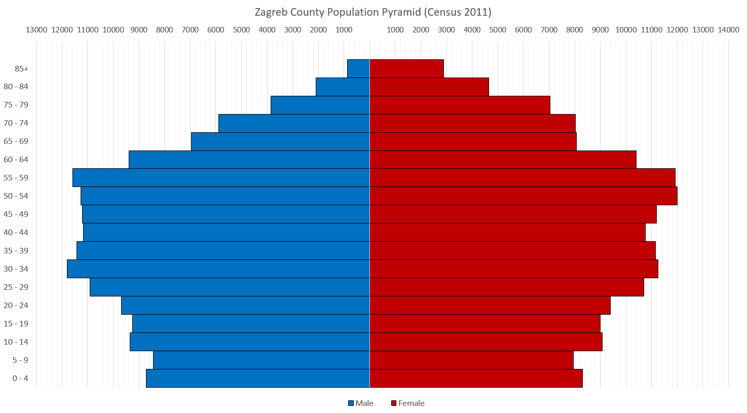 Population pyramid of Zagreb County. Version in English. Data from 2011 Census; available at